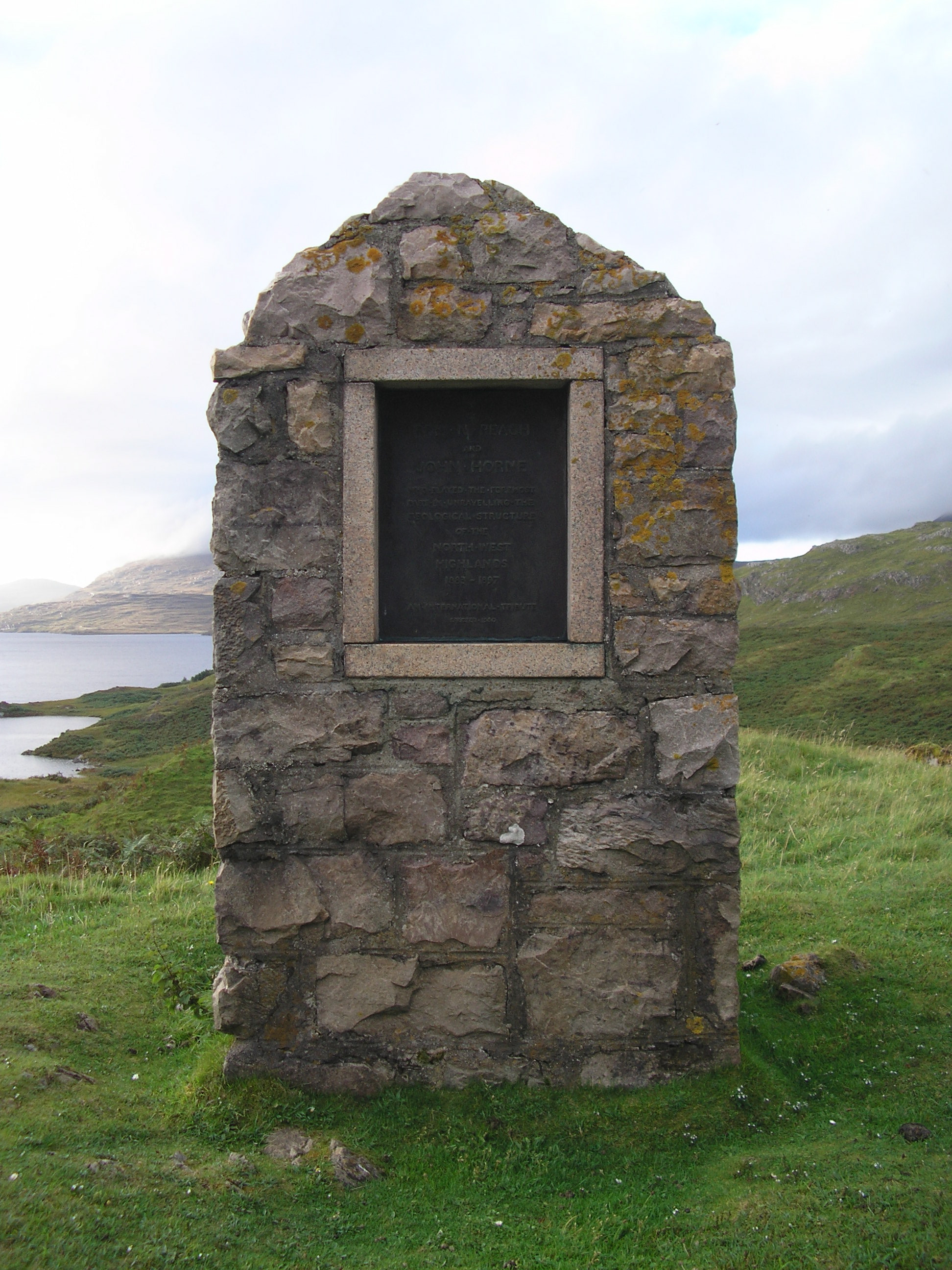 Ben Peach and John Horne Monument, overlooking Loch Assynt, Inchnadmaph, Assynt, Scotland